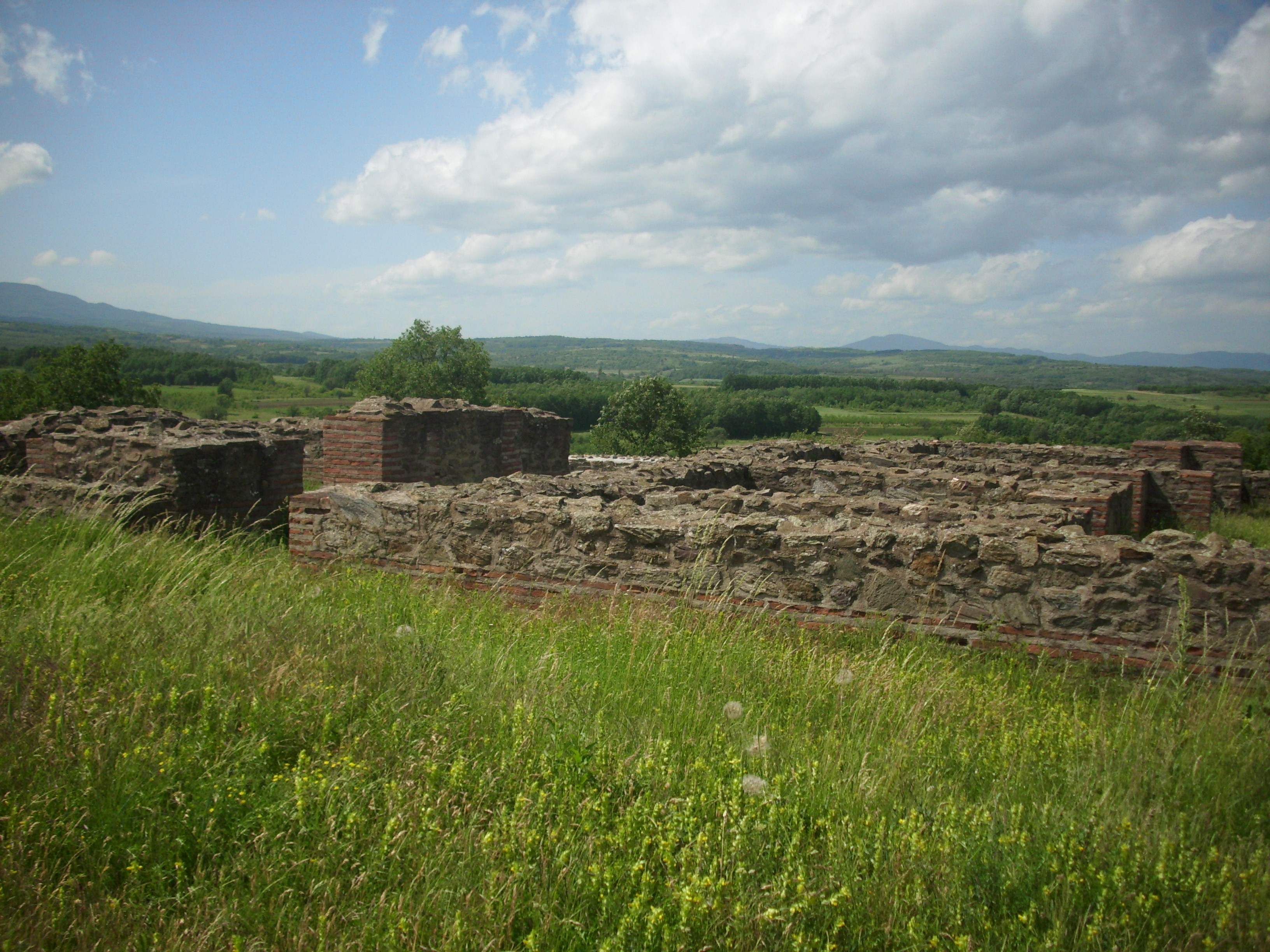 Iustiniana Prima